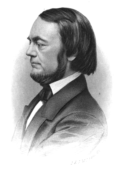 Engraving of American essayist and literary critic Edwin Percy Whipple (1819-1886). Image from Recollections of Eminent Men: With Other Papers by Edwin Percy Whipple, fourth edition, published by Ticknor and Company, 1886.